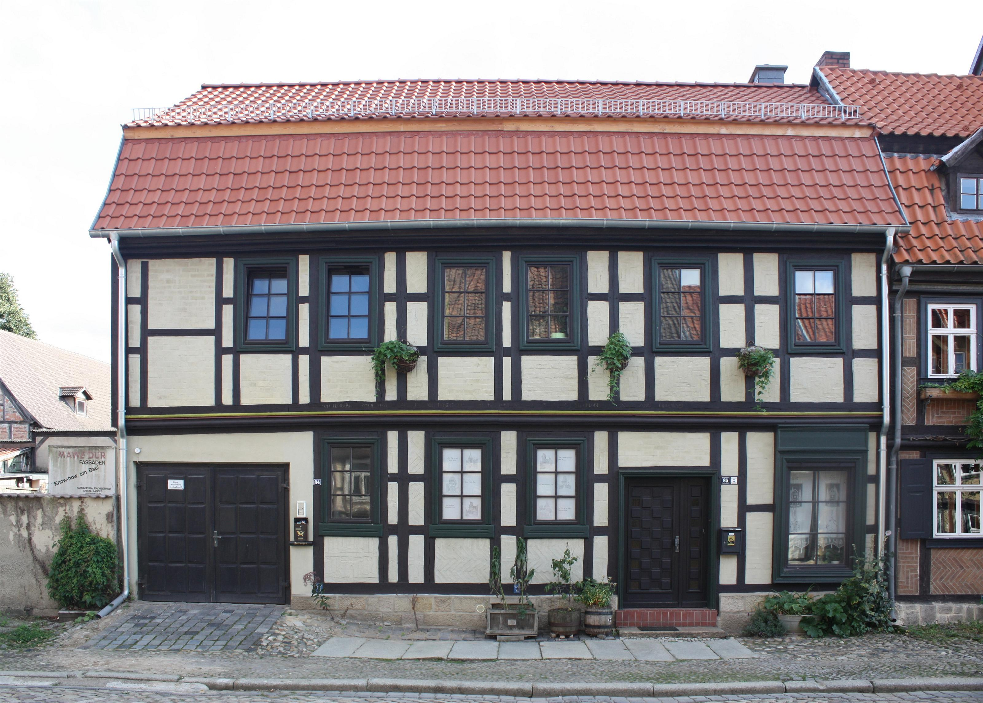 This is a photograph of an architectural monument.It is on the list of cultural monuments of Quedlinburg Augustinern 84-85 in Quedlinburg